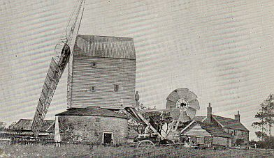 Photograph of Garboldisham windmill c1890 from a postcard published in the 1970s, publisher not identified.